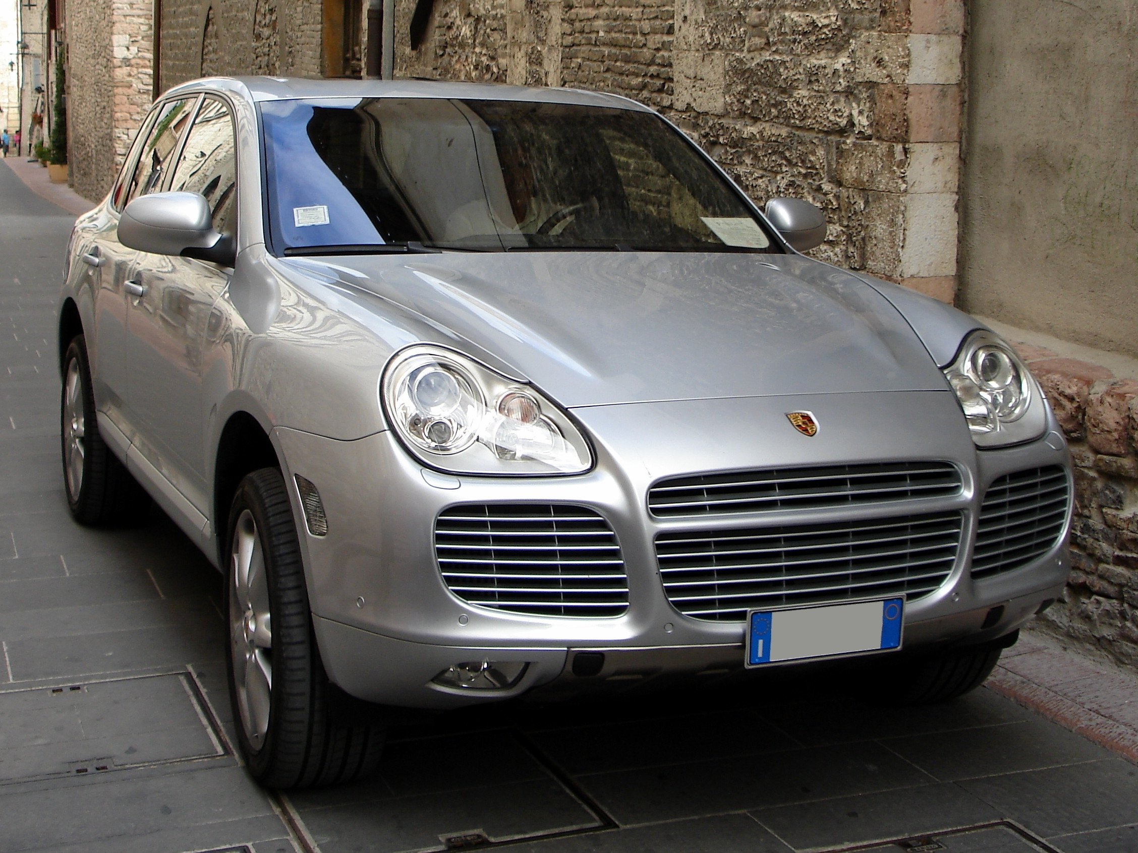 Porsche Cayenne turbo